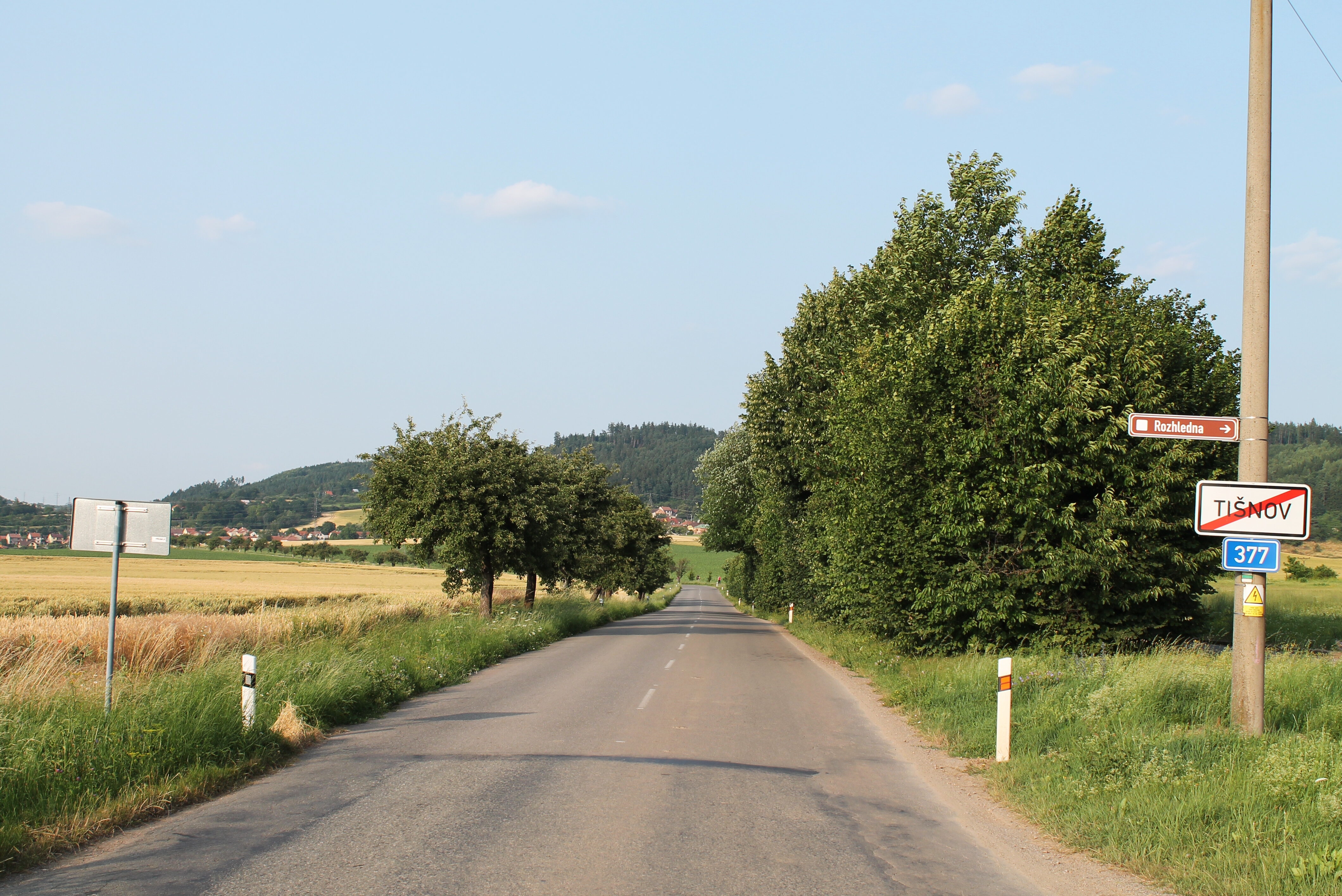 Road II/377 toward to Železné, Tišnov, Brno-venkov Disctrict, Czech Republic - OpenStreetMap (Info)